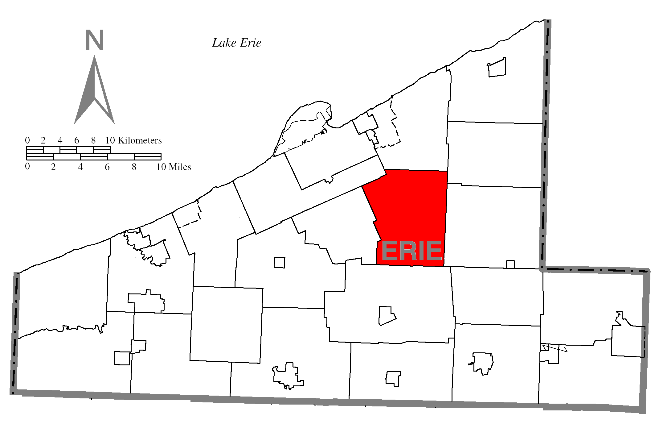 A map of Erie County showing Greene Township, Pennsylvania (alternate) highlighted on the map.